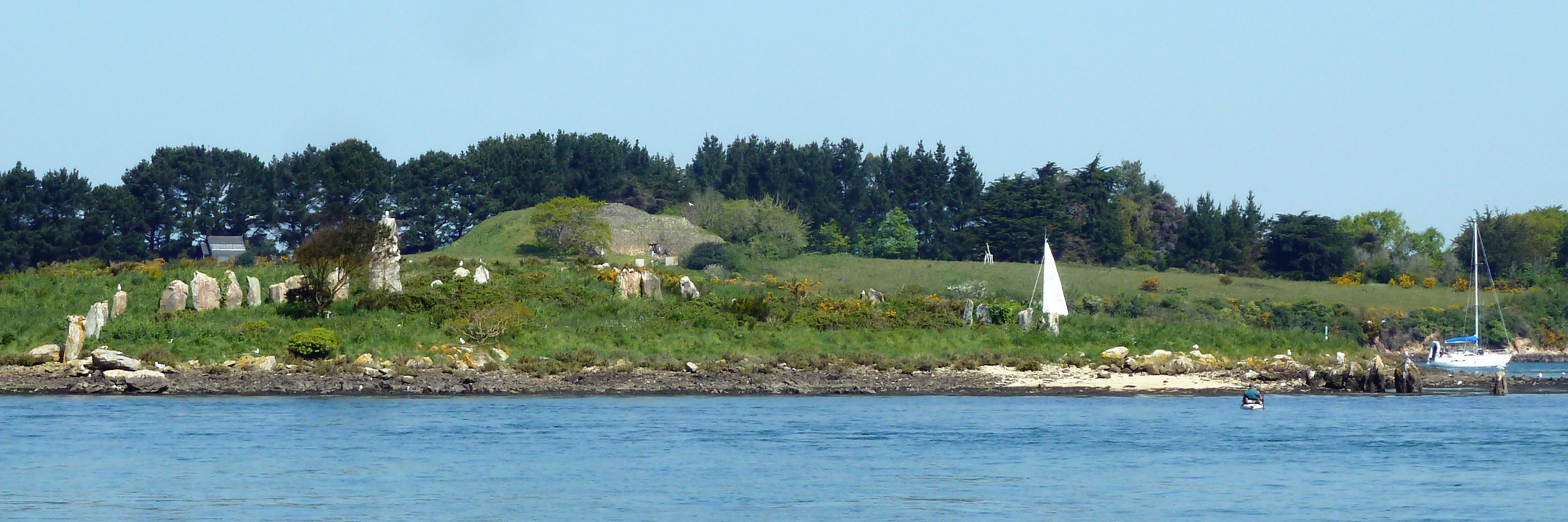 The cromlech of Er Lannic Island and, in the background, the Gavrinis Gavrinis passage tomb, in the Gulf of Morbihan, Brittany (France).